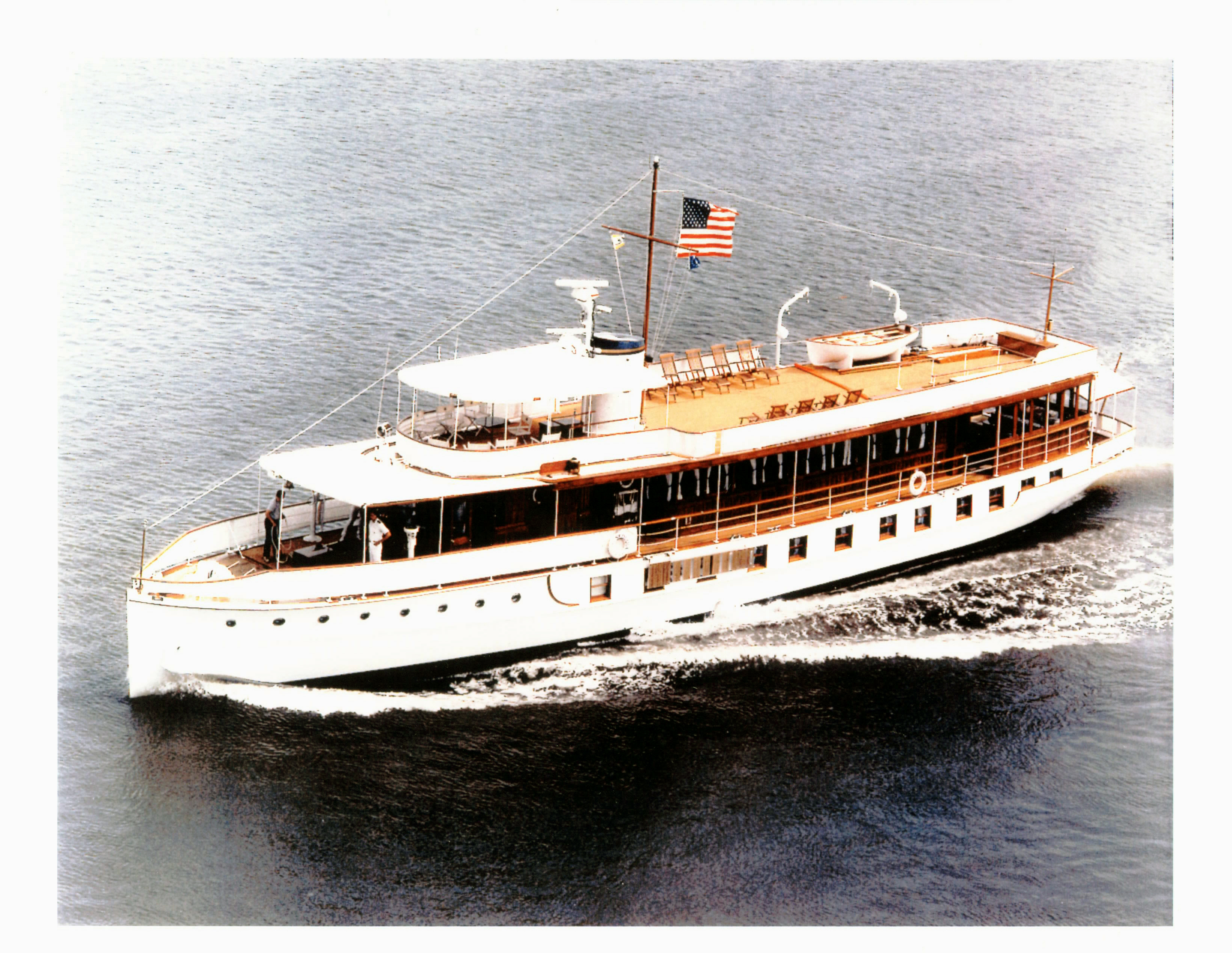 Washington Navy Yards (Apr 23, 2003) -- The former Presidential Yacht USS Sequoia (AG 23) travels down the Potomac River near Washington D.C. The Navy Museum at Washington Navy yard hosted a crew reunion for former crewmembers of the Sequoia during which family member had a chance for a cruise aboard the Sequoia. The Sequoia served as the Presidential Yacht for 45 years before being sold by President Carter in 1977, Sequoia was home berthed at the Washington Navy Yard and served Presidents, Heads of State, and Foreign Dignitaries. U.S. Navy photo. (RELEASED)